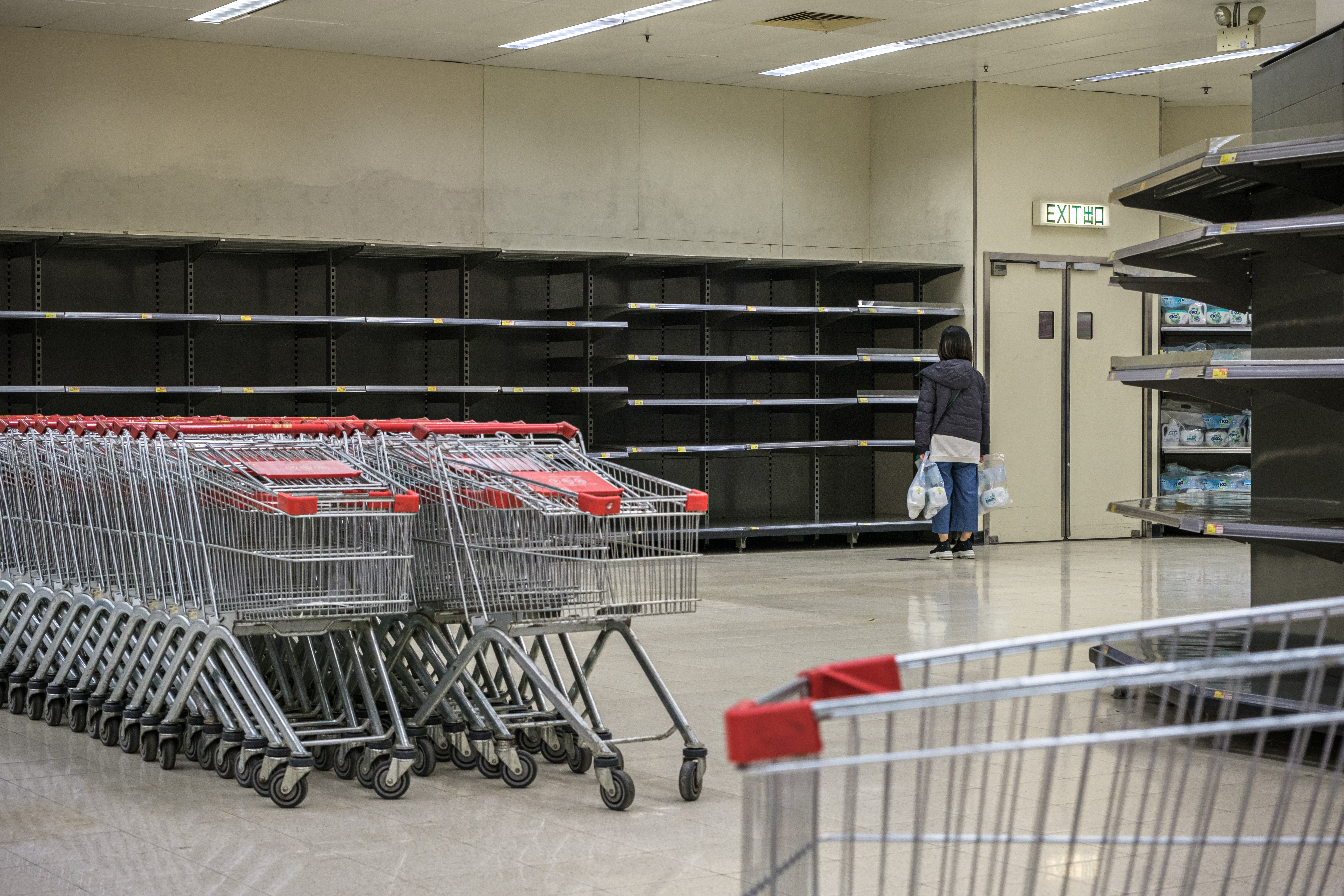 Wellcome supermarkets many goods sold out